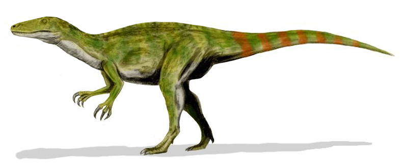 Fukuiraptor kitadaniensis, an allosaurid from the Early Cretaceous of Japan, pencil drawing, digital coloring